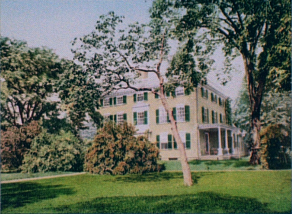 Chromograph of Elmwood (Cambridge, Massachusetts).